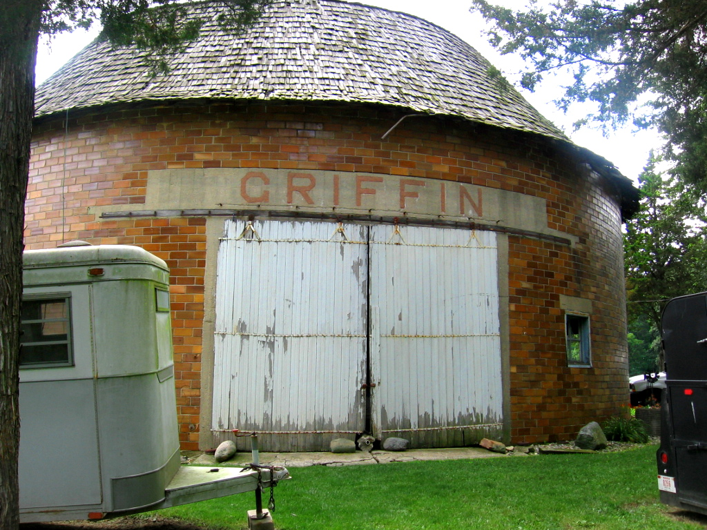 A view of the main doors of the Cornish Griffin Round Barn, in Steuben County, Indiana. The Cornish Griffin Round Barn is on the National Register of Historic Places.